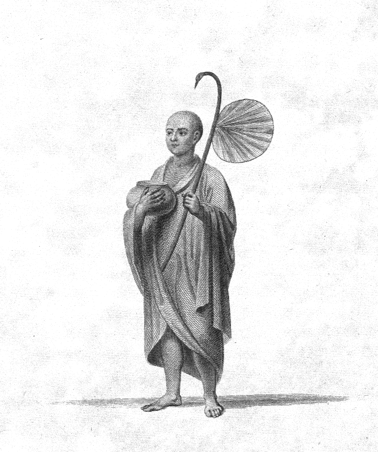 A Rhahan or Priest.